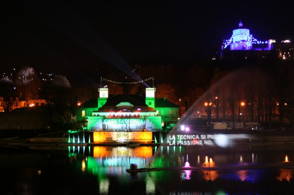 Esperia by night during 2006 Olympics